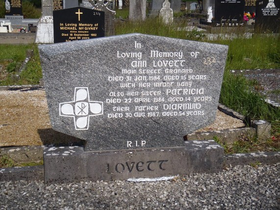 Anne Lovett